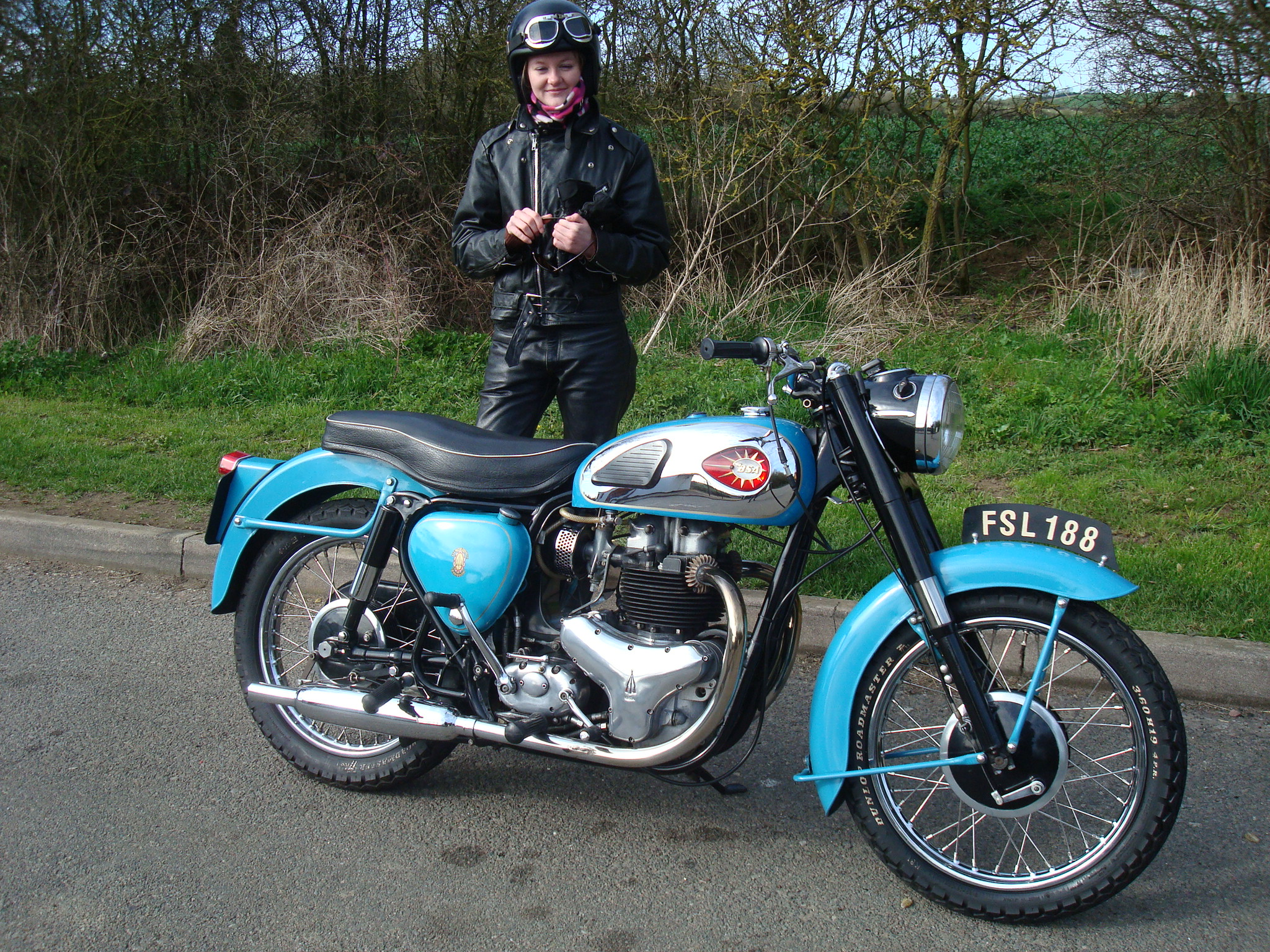 Late Golden Flash A10s had Swinging arm frames and had a separate engine and gearbox. This one dates 1961.